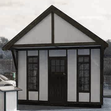 One of Butlins original chalets at Butlins Skegness, Ingoldmells near Skegness, Lincolnshire, England.